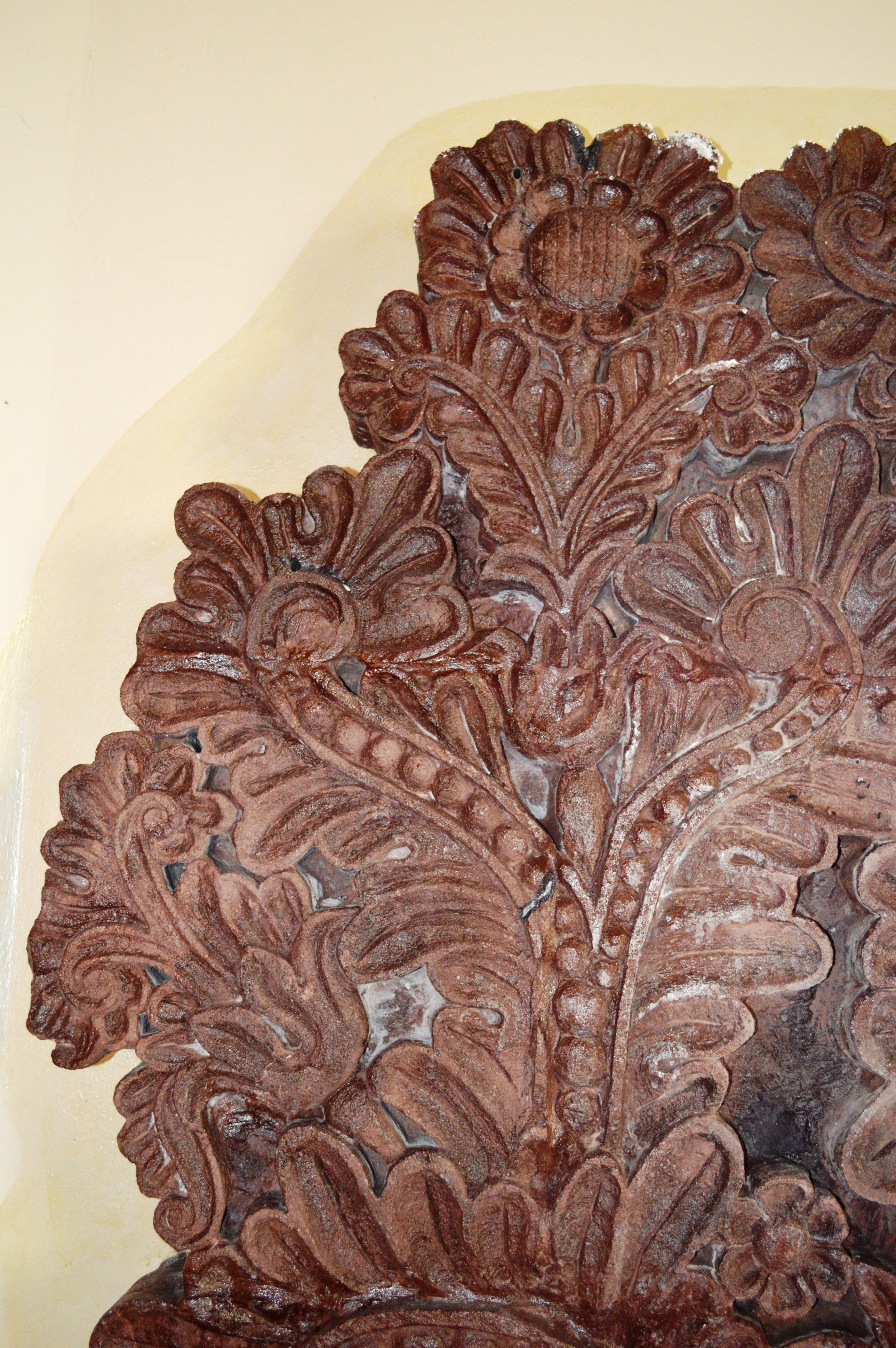 Detail of stonework inside the chapel of the Hacienda Santa Clara in San Miguel Allende, Mexico